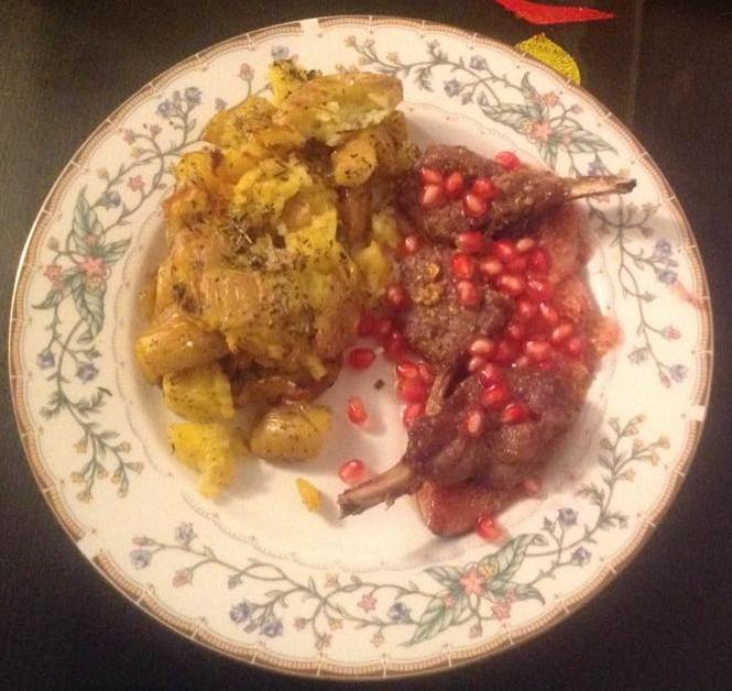 Turkish lambchops with candied figs and herbed smashed potatos, garnished with pomegranate